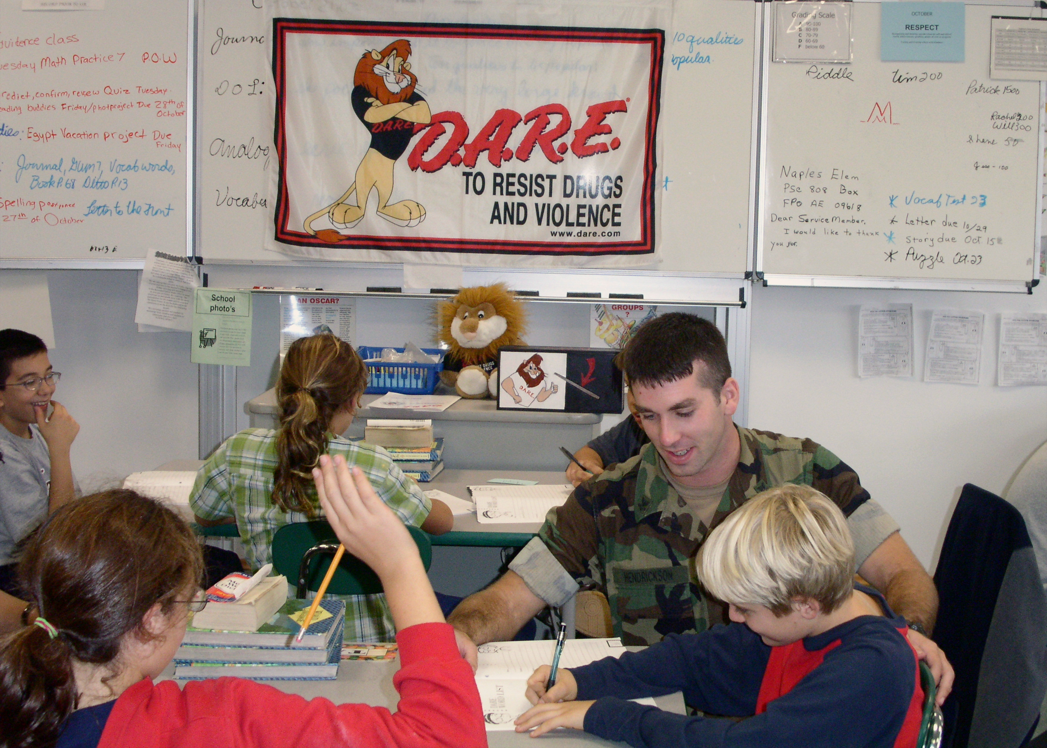 Naples, Italy (Oct. 21, 2003) -- Master at Arms 2nd Class Aaron M. Hendrickson, Naples area Drug Abuse Resistance Education (DARE) officer, follows along with Justin Goldacker as they work to complete a lesson in the DARE workbook. All students must complete the workbooks in order to graduate from the program. U.S. Navy photo by Interior Communications Electrician 2nd Class David Carter. (RELEASED)